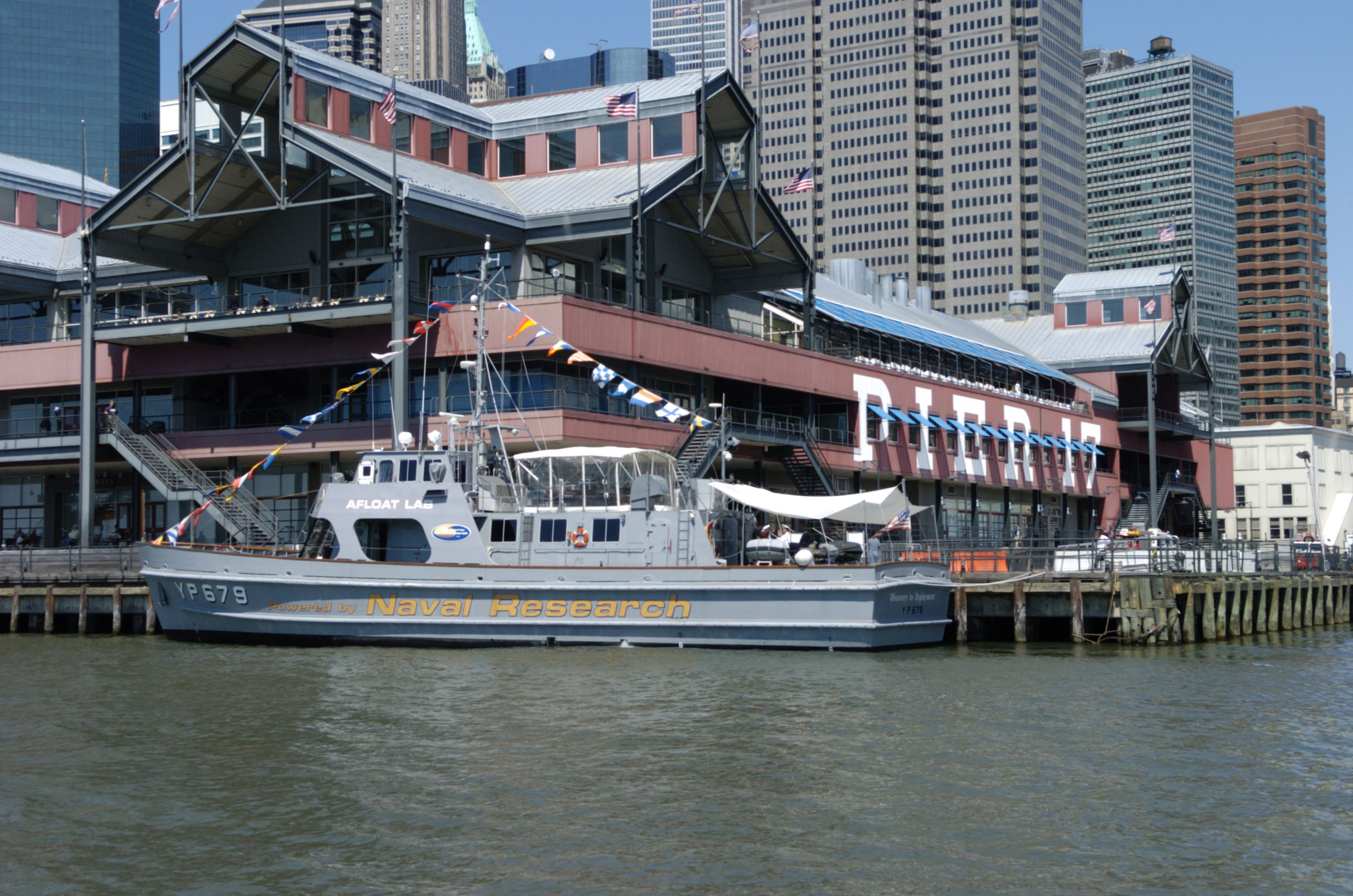 New York City (May 29, 2005) - The Office of Naval Research (ONR) Afloat Lab, YP-679, “Starfish”, is docked at the South Street Seaport's Pier 17 during the 18th annual Fleet Week in New York City. Fleet Week allows the community to celebrate the sacrifices made by the U.S. Navy, Marine Corps and Coast Guard by giving them the opportunity to visit the city and experience the "Big Apple's" hospitality. U.S. Navy photo by Senior Chief Journalist John F. Williams (RELEASED)